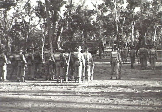 Soldiers from the 28th Australian Infantry Battalion conducting a changing-of-the-guard ceremony at Darwin, Northern Territory